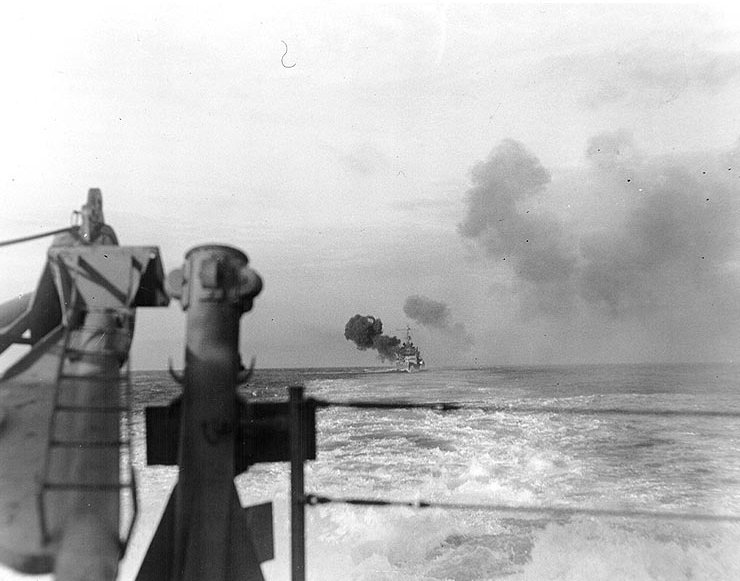 North African Invasion, November 1942: USS Tuscaloosa (CA-37) fires her eight-inch main battery at French forces, during action off Casablanca, Morocco, circa 8 November 1942.